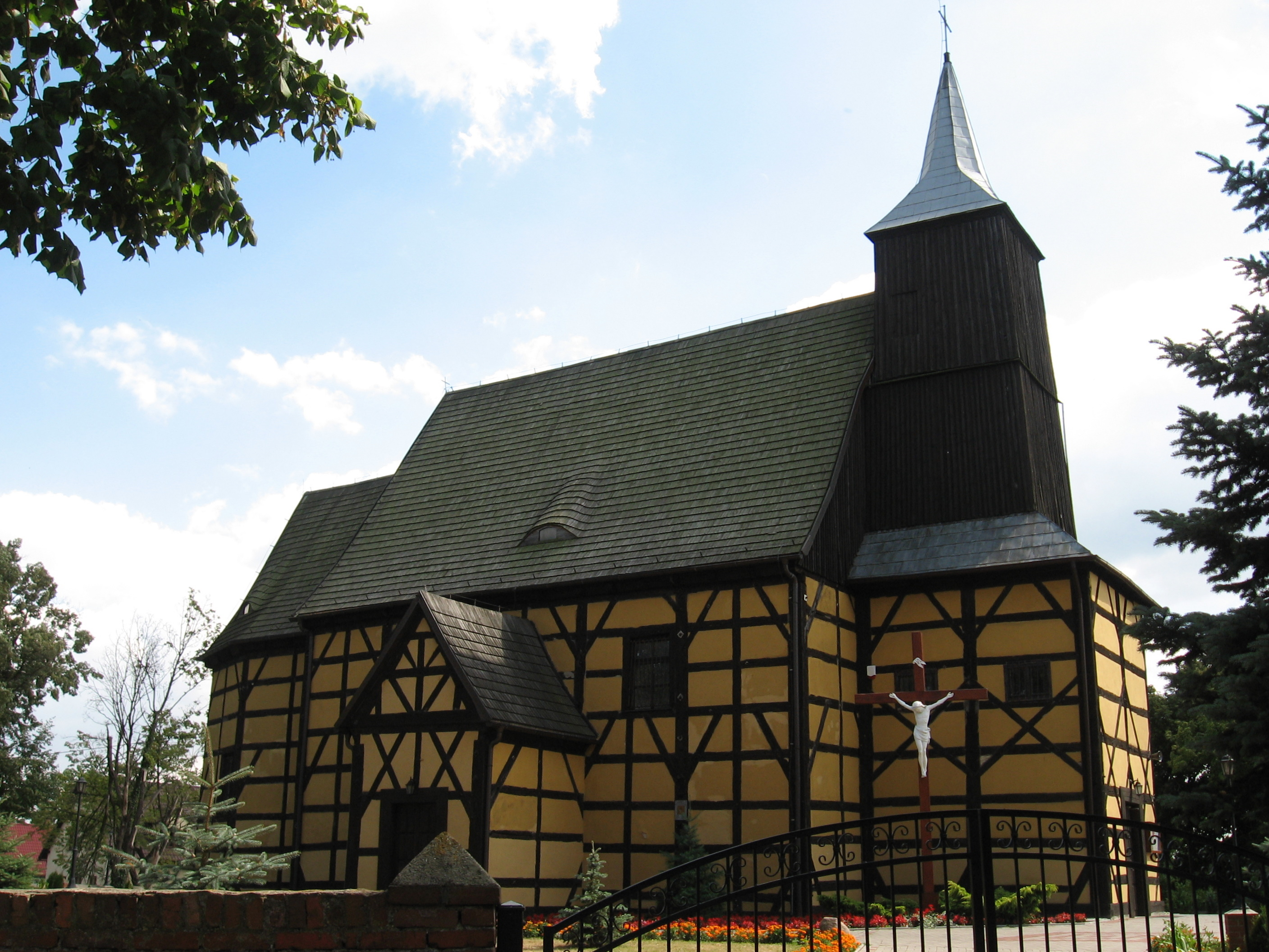 Church of The Birth of The Blessed Virgin Mary in Lubin (Poland, Lower Silesia). See an article about this church in Wikipedia.